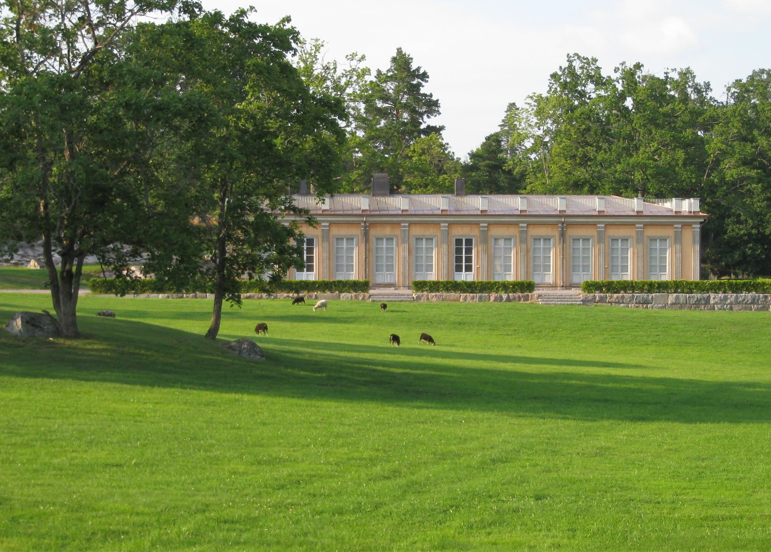 The Music Pavilion at Stålboga Bruk